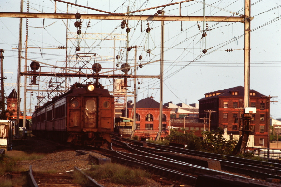 Ex-PRR MP54 EMUs leave Wilmington station for West Yard at an unknown date